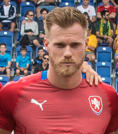 1/6/18St. Poelten, Austria, sports, football, International friendly - Australia vs Czech Republic. Image shows the team of Czech Republic.